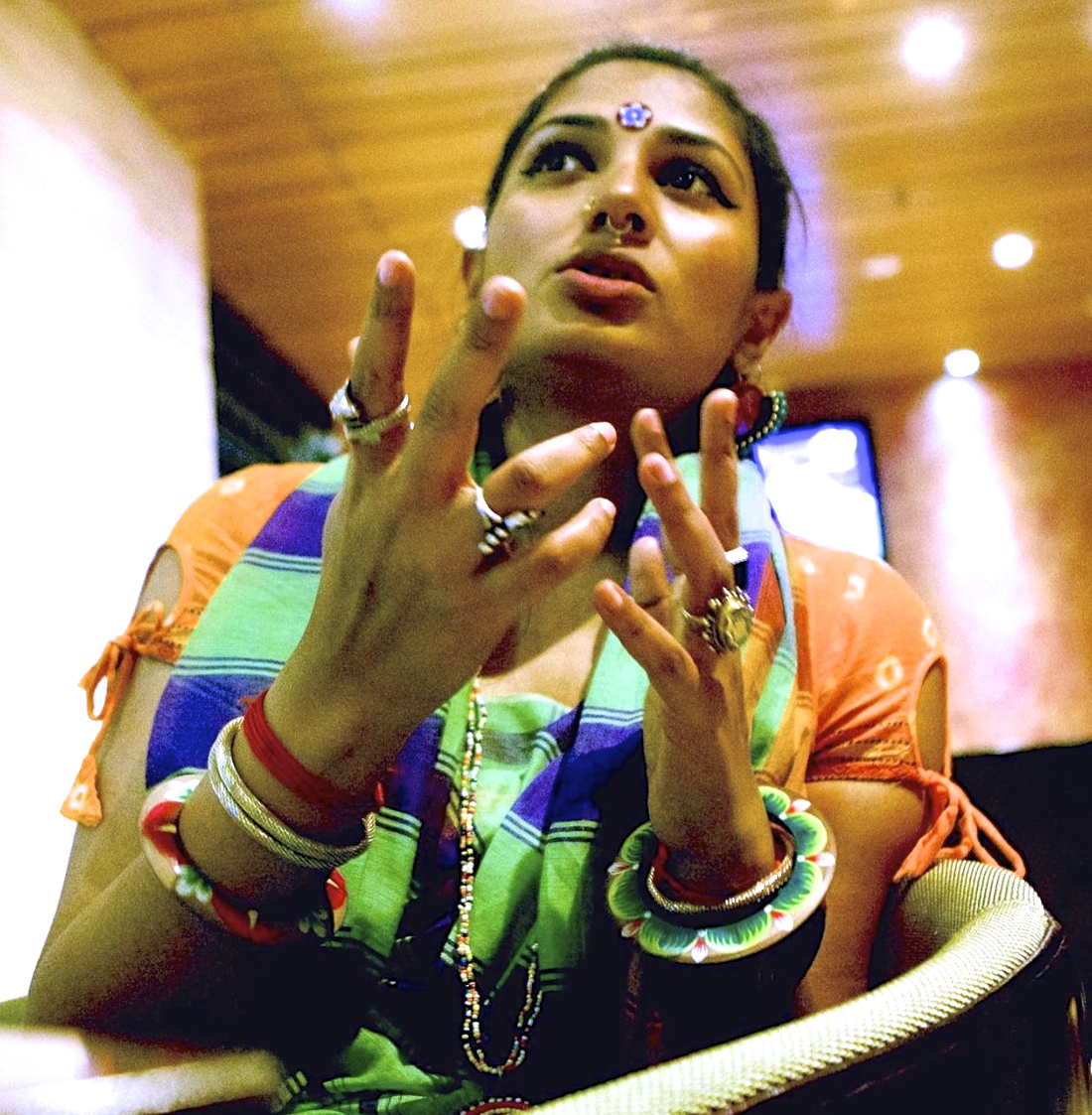 Wasfia Nazreen during a public talk in Dhaka, Bangladesh in 2015.